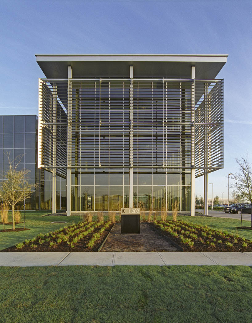 Satterfield & Pontikes Offices